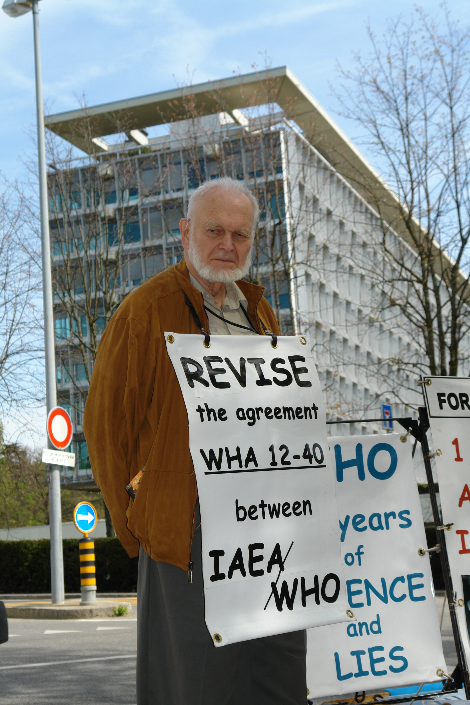 Alexei Yablokov in front of the World Health Organisation, Geneva.